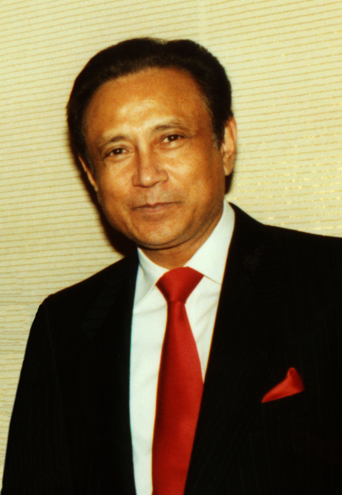 From Dr. Mani Bhaumik private collection